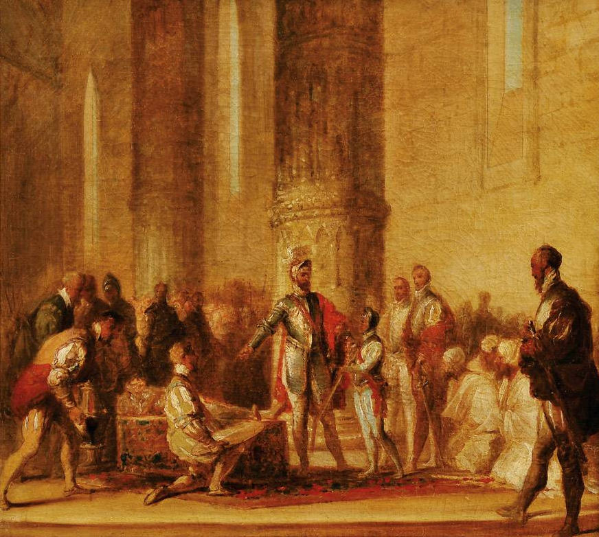 King Afonso V of Portugal knights the Prince John (later King John II of Portugal), in the mosque at Asilah, after that city was taken by the Portuguese. The scene takes place by the corpse of the Marquis of Marialva, who died during the conquest.